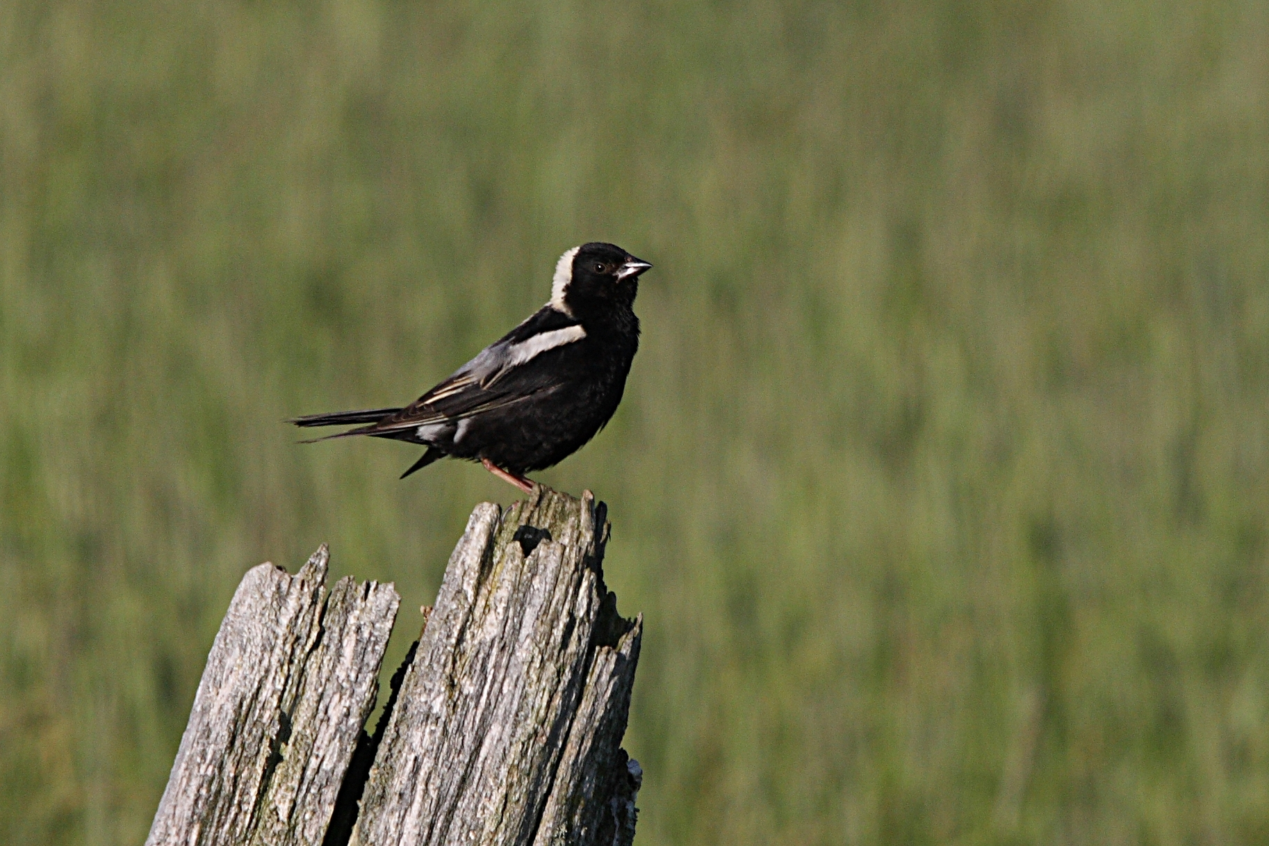 Bobolink, Saint-Joseph-de-Ham-Sud, Quebec, Canada